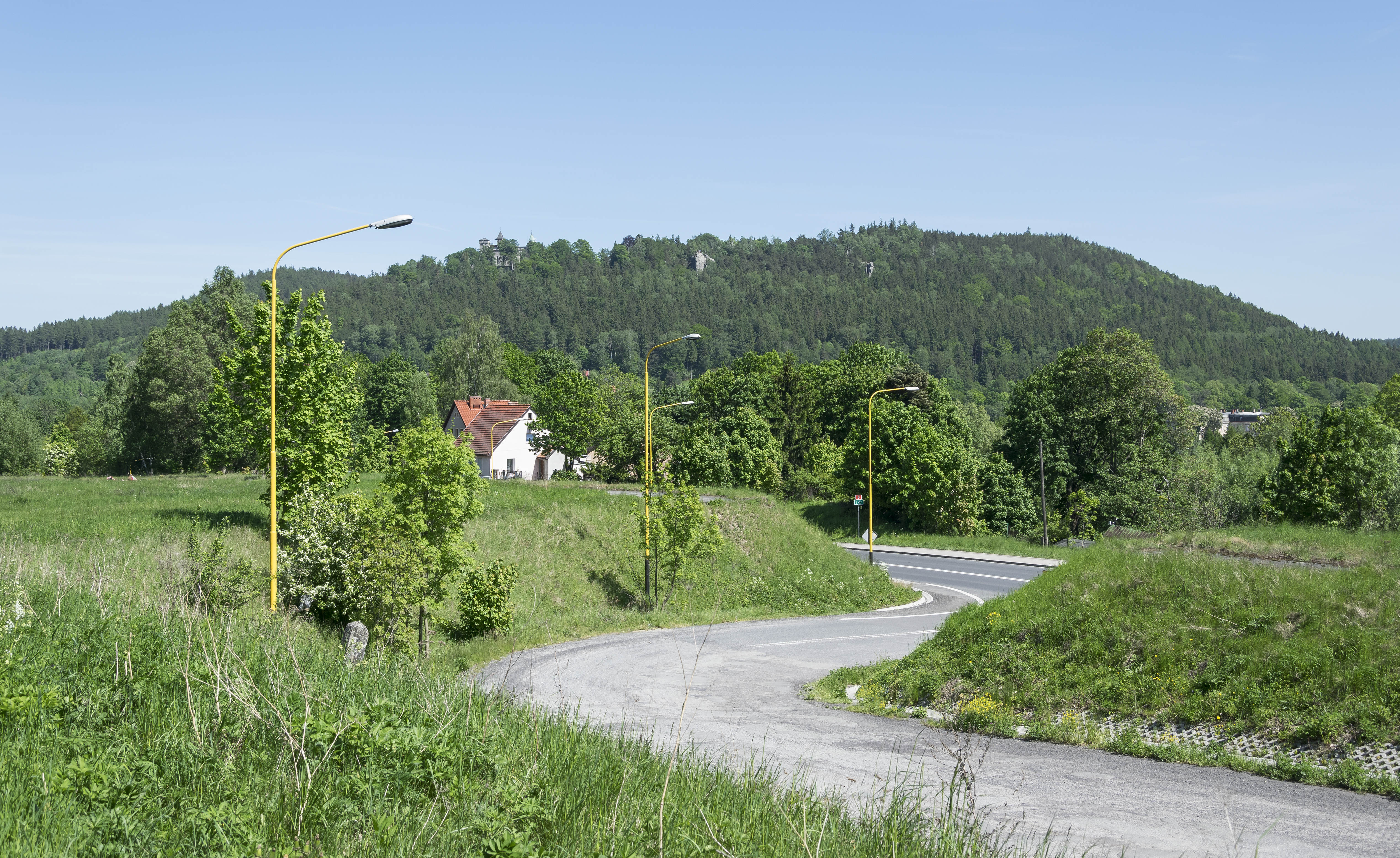 Szczytnik, Stołowe Mountans, Sudetes